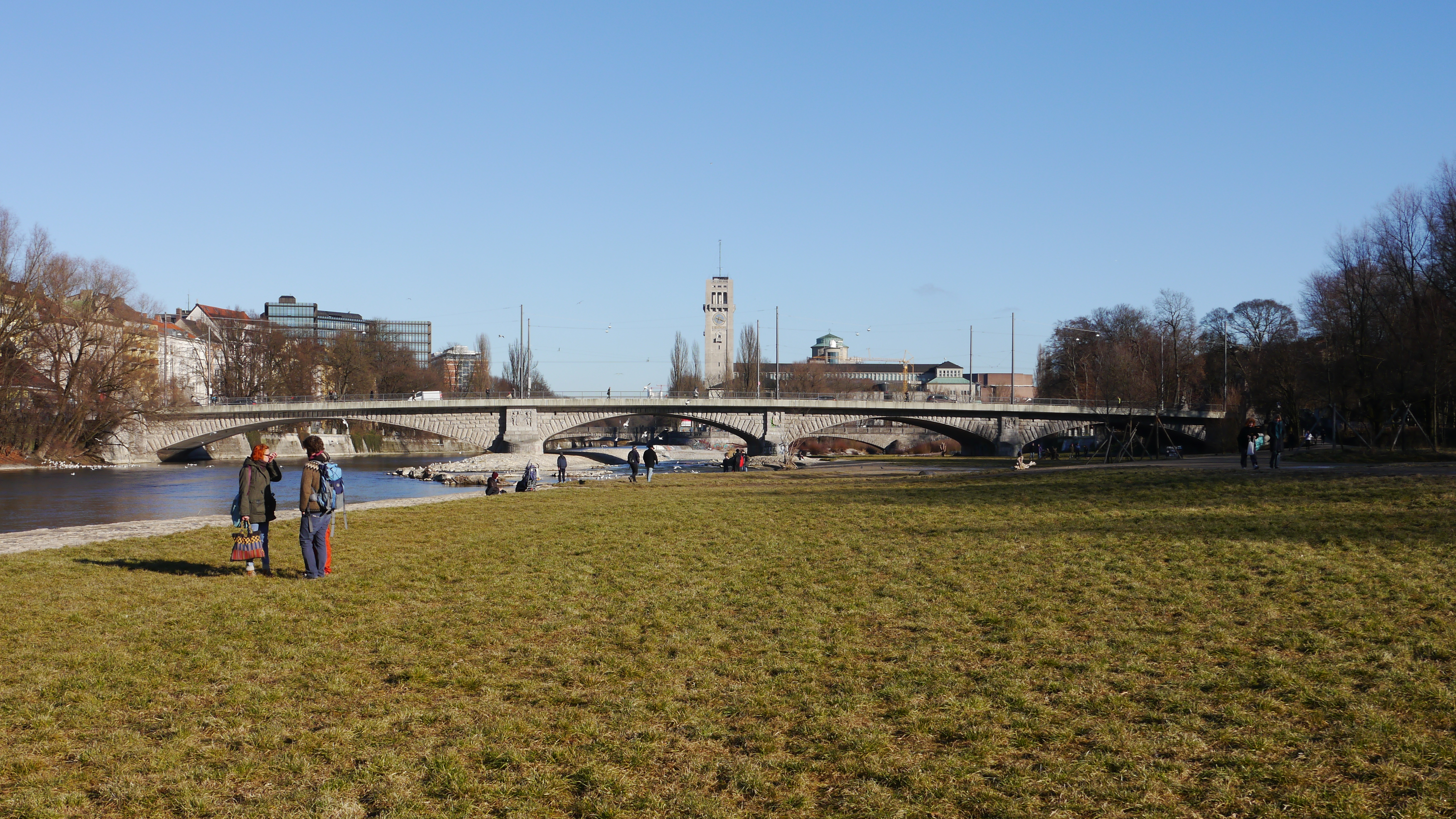 The Reichenbachbrücke in Munich, seen from the Southwest in the Frühlingsanlagen.